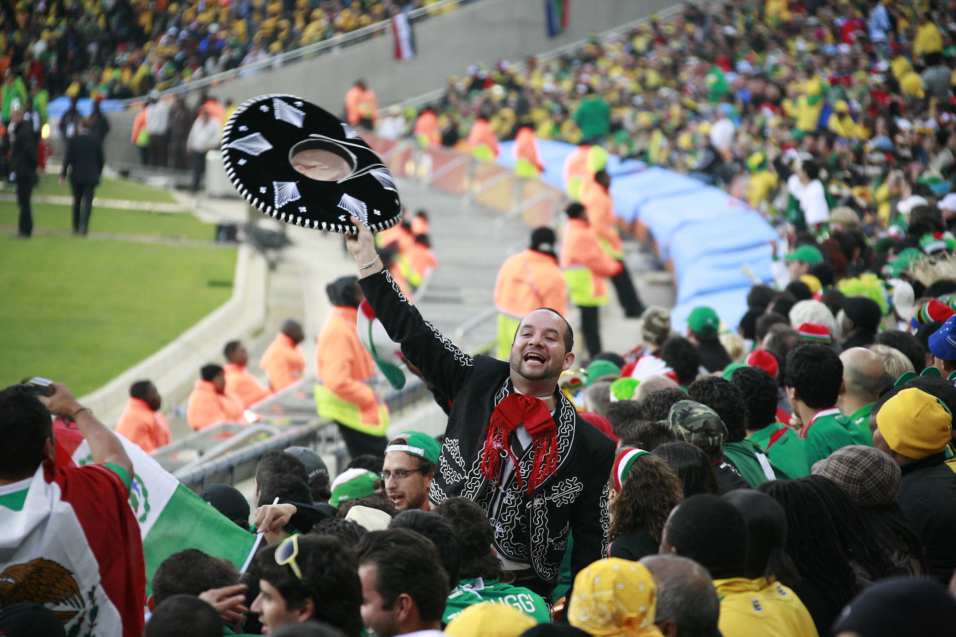 A fan of the World Cup Mexico team encourages others at the opening match of the 2010 FIFA World™ up against South Africa.